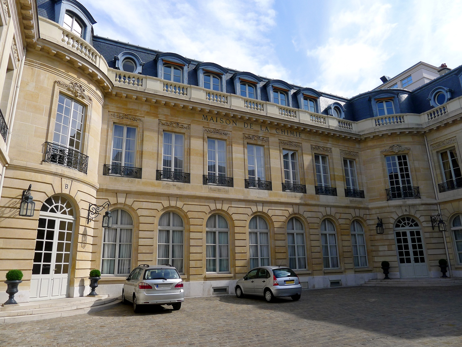 Saint-Dominique street, n°28 - Paris